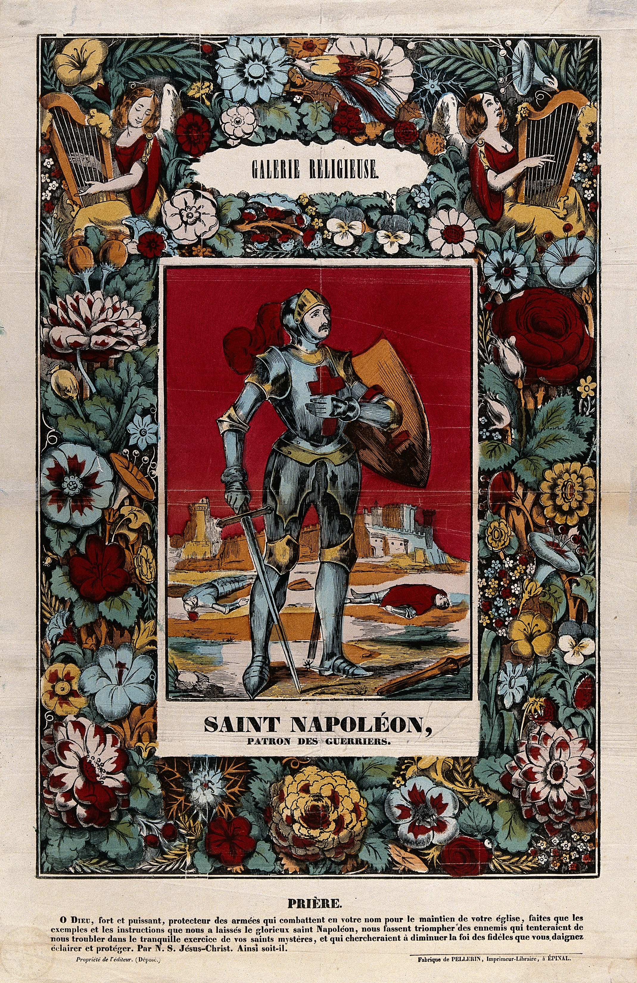 Saint Napoleon. Coloured lithograph. Iconographic Collections